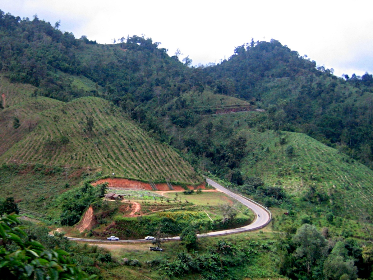 Typical curvy drive on route 1090 between Mae Sot and Umphang, Tak Province, Thailand.